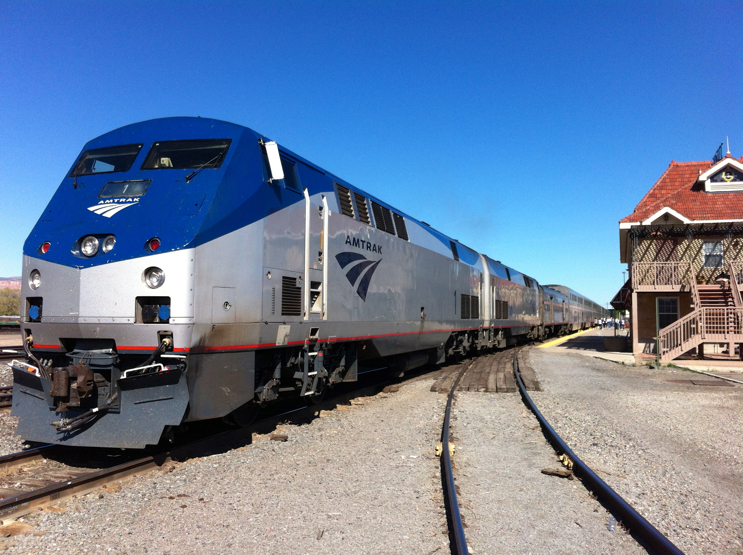 Amtrak engine #1 in front of engine #56, both GE Genesis P42DC diesels, pulling the eastbound California Zephyr at Grand Junction, Colorado, April 2012.